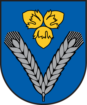 coat of arms of Rugāji Municipality, Latvia.